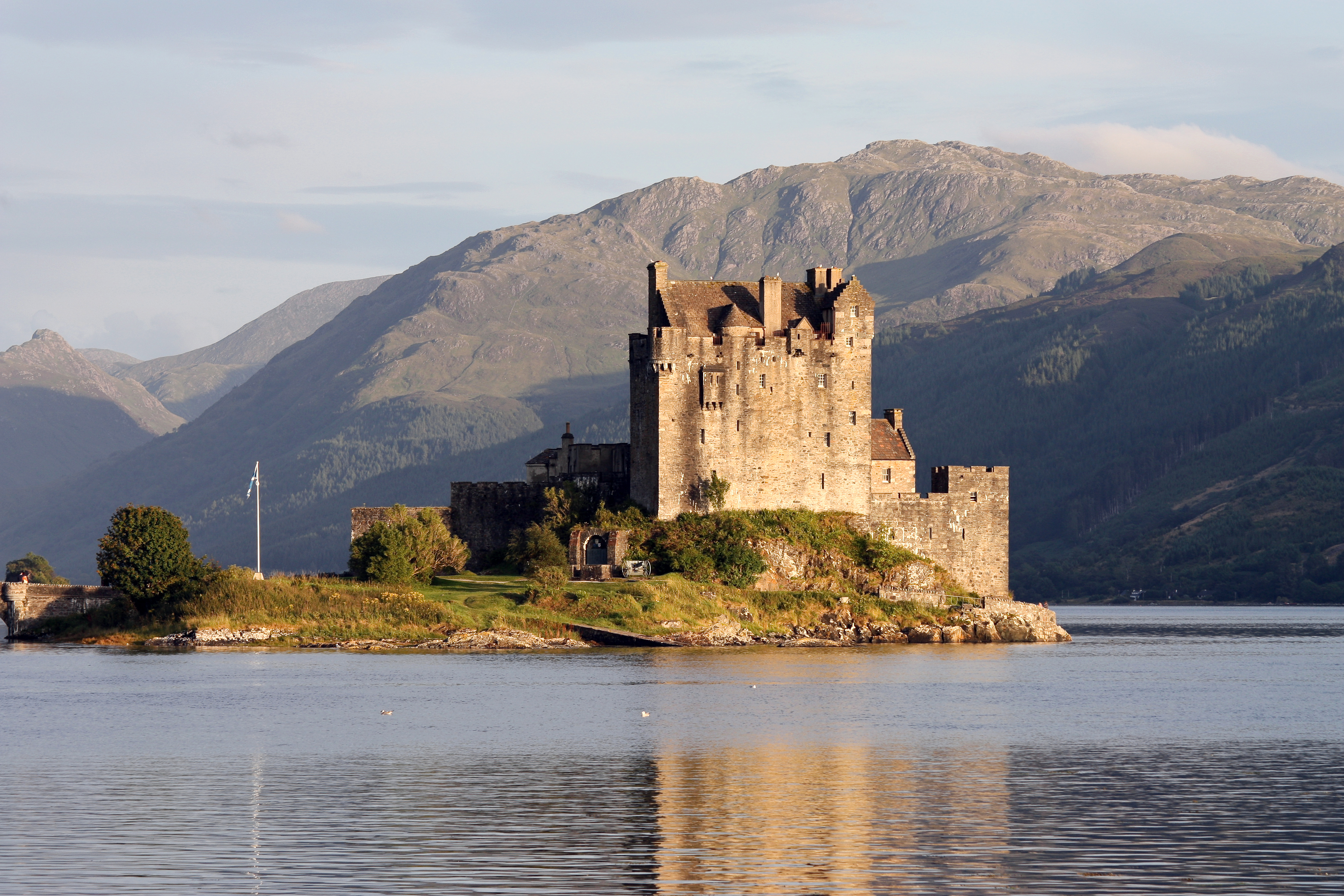 Eilean Donan castle, in the Scottish Highlands.